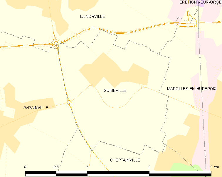 Map of French municipality Guibeville